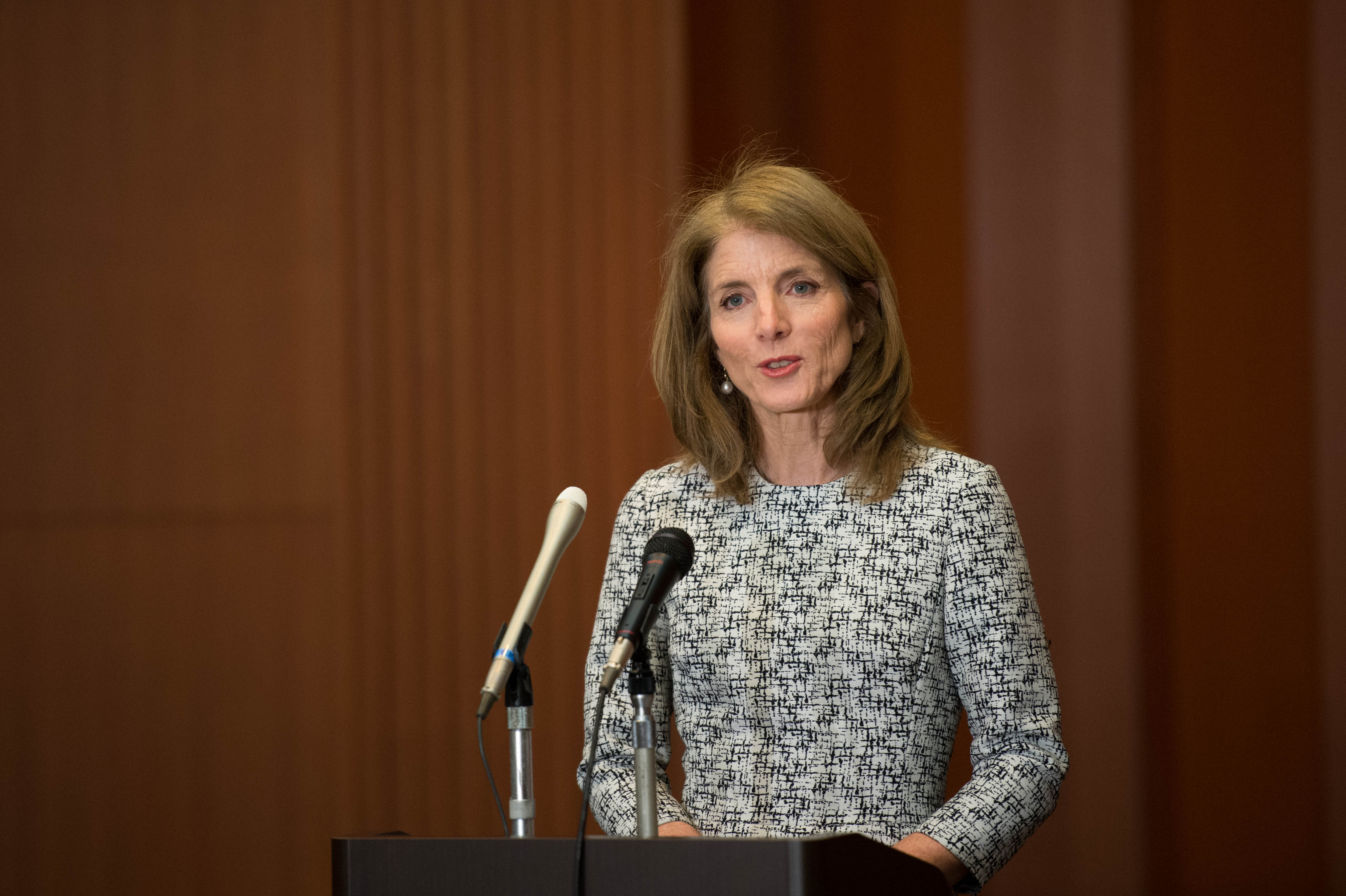 Caroline Kennedy, Ambassador to Japan, made a speech at the Ceremony of the Signing of the Agreement between the Government of Japan and the Government of the United States of America on Enhancing Cooperation in Preventing and Combating Serious Crime in Tōkyō Metropolis on February 7, 2014.